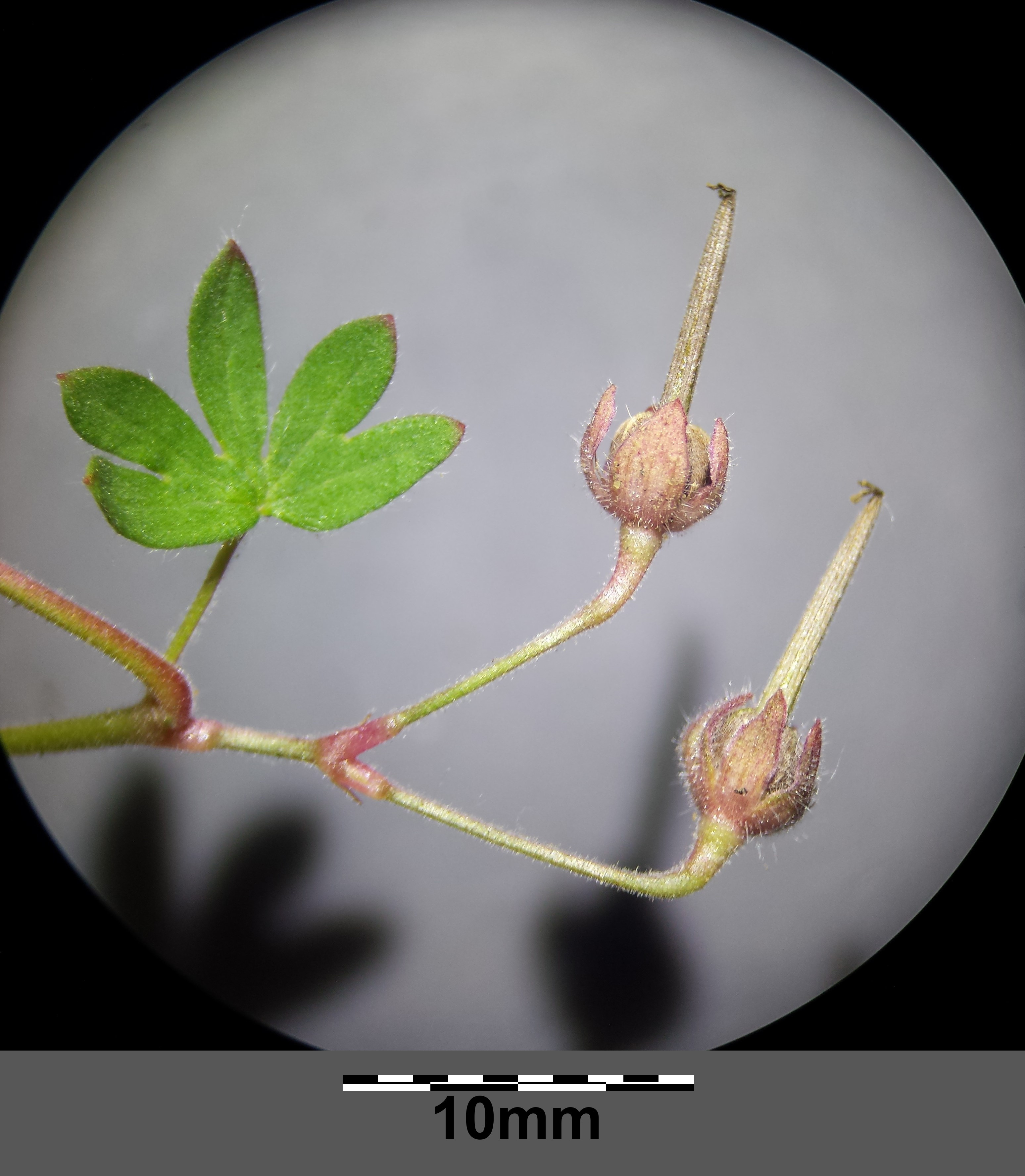 Infructescence Taxonym: Geranium pusillum ss Fischer et al. EfÖLS 2008 ISBN 978-3-85474-187-9 Location: Eichleiten to the North of Enzersfeld, district Korneuburg, Lower Austria - ca. 250 m a.s.l. Habitat: vineyard